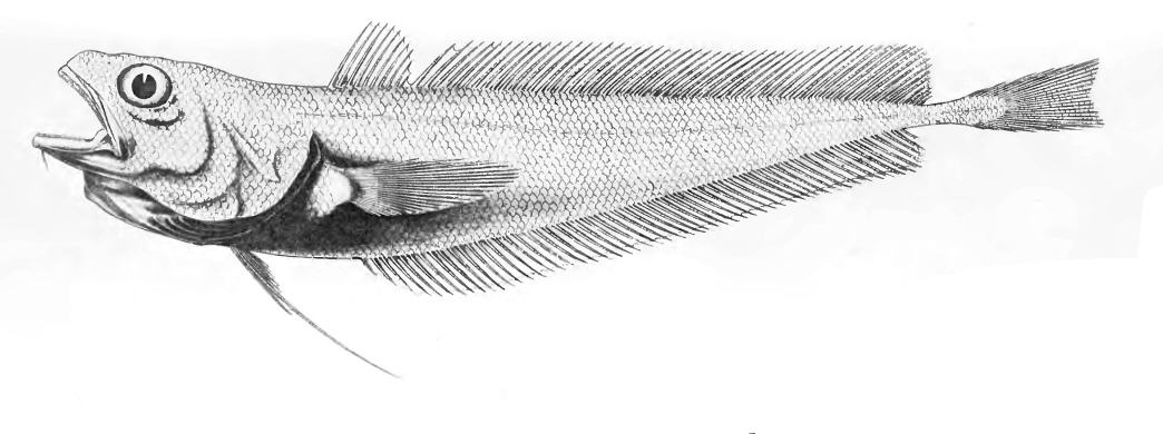 Physiculus argyropastus Alcock; Fig. 1 in plate XXII of Illustrations of the Zoology of the Royal Indian Marine Survey Ship Investigator, under the command of Commander T. H. Heming. Fishes Part V, Plates XVIII-XXIV.